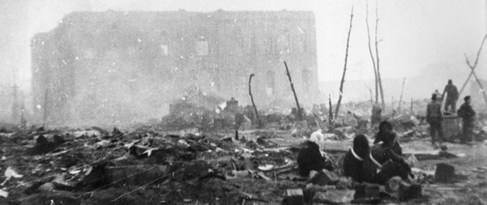 Center of Nagaoka City which became a burned land in Nagaoka Air Raid. The building which is seen behind is the Nagaoka Post Office.